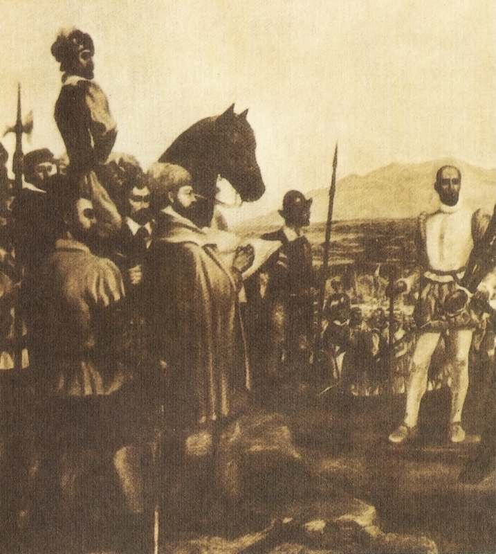 Foundation of "La Villa Hermosa de Arequipa" founded by Garcí Manuel de Carvajal